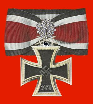 Knight's Cross of the Iron Cross with Oak Leaves, Swords and Diamonds.